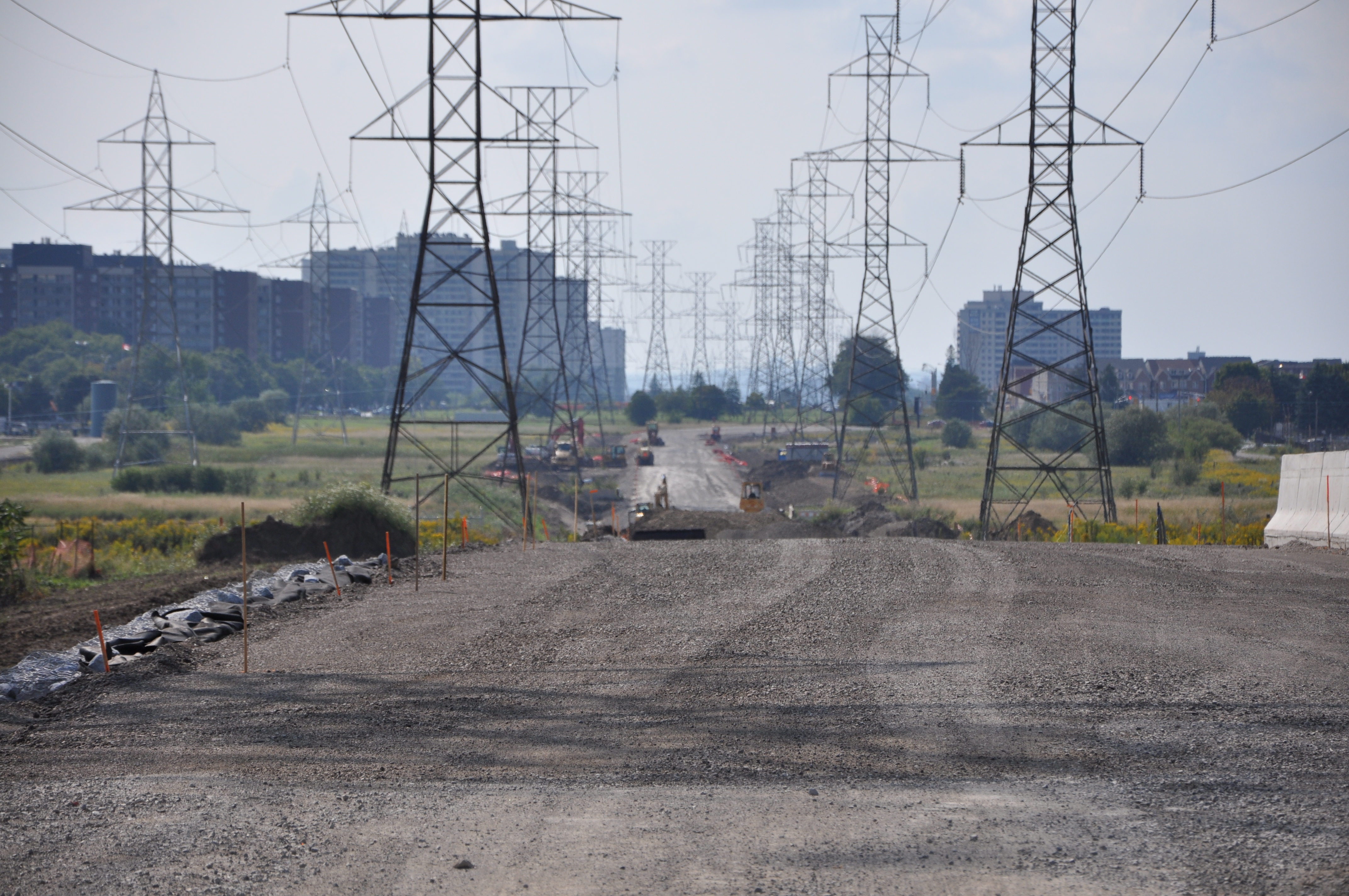 Looking west toward Keele down the York University Busway under construction